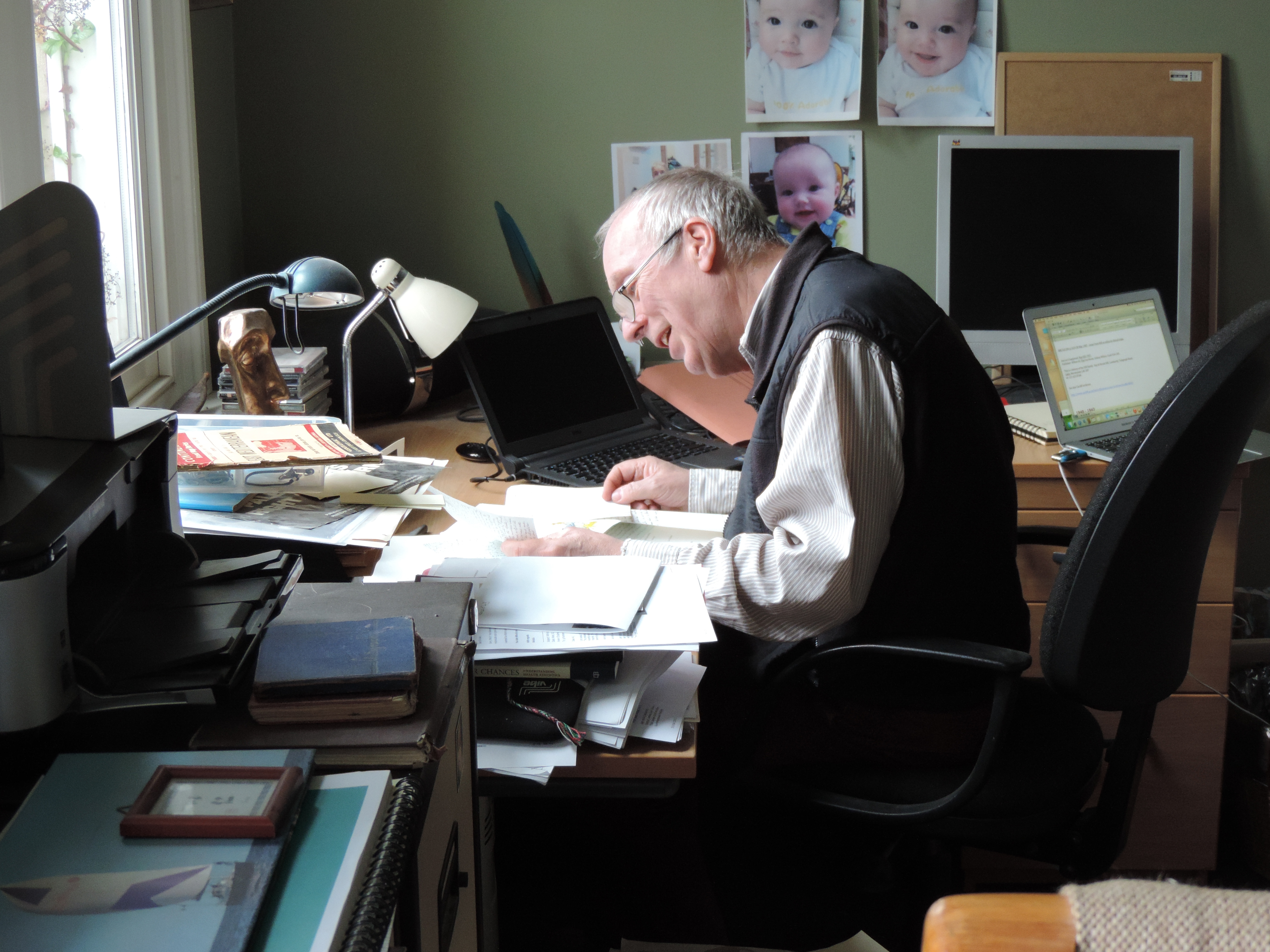 Iain Chalmers in his office at home, Middle Town, Oxford.